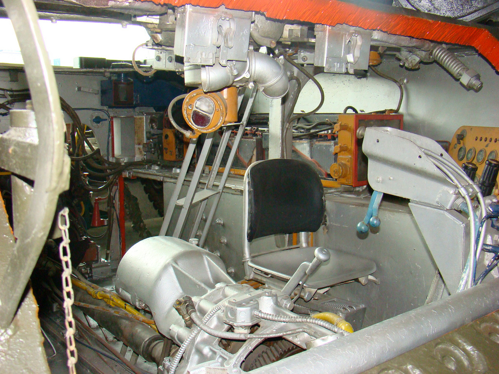 Actual cutaway M4 Sherman at the Canadian War Museum in Ottawa, Ontario, Canada